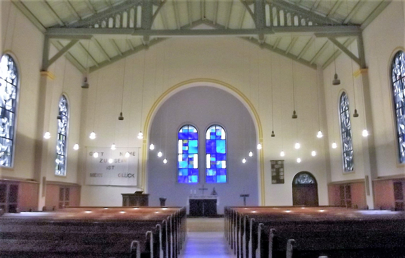 Interior of the protestant church in Altenwald, Saarland, Germany